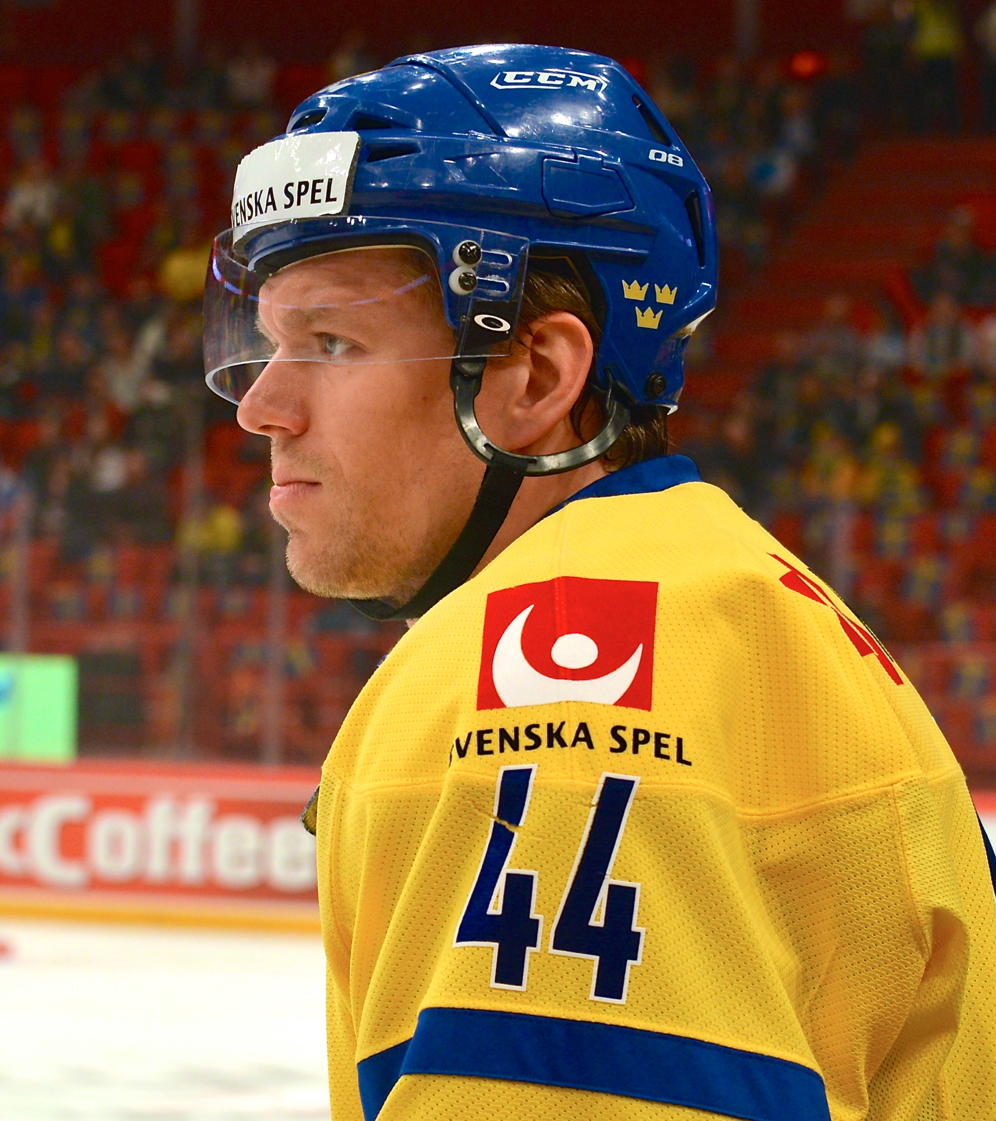 Nicklas Danielsson during Oddset Hockey Games against Russia (2-0) at the Ericsson Globe in Stockholm on May 4th, 2014.